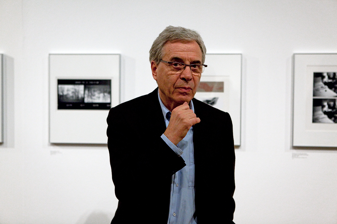 Timm Rautert, german photographer